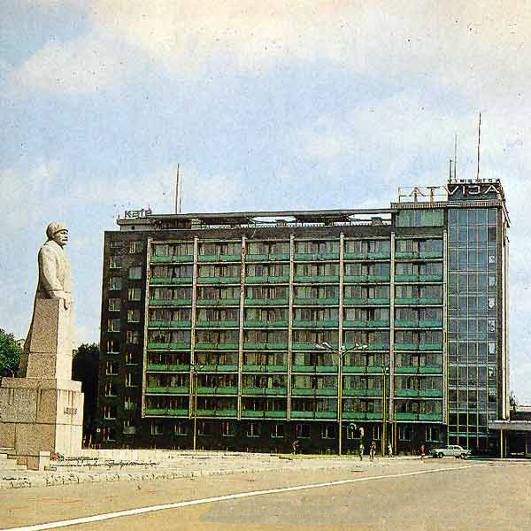 Vladimir Lenin statue in Daugavpils, Latvian SSR. ~1975.